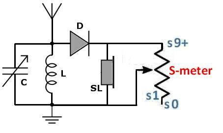 Shunt-meter